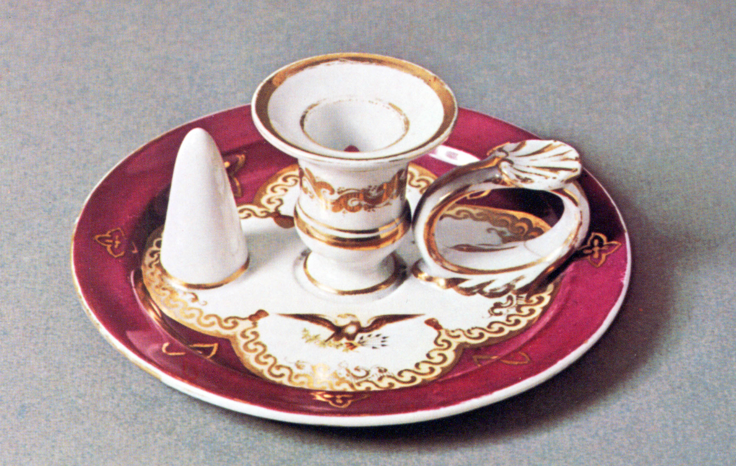 Candlestick holder and candle cap, purchased as part of a toilet set by First Lady Mary Todd Lincoln in 1861 and used in the White House in Washington, D.C., in the United States. The set is based on the "Solferino" porcelain china dining service ordered by Mrs. Lincoln in April 1861. The set is named for the purple color (known as "solferino") which borders the items. The toilet set was ordered on July 18, 1861, and consisted of two services. The one for Abraham and Mary Lincoln consisted of a ewer and basin, covered chamber pot, soap box, brush tray, jug, foot bath, and slop jar. It cost $45, and was decorated with the solferino border, although the Alhambra (braided gold rope) edging was replaced with a quatrefoil and tassel motif. The Great Seal of the United States present on the dining service was replaced with a Gothic "ML" in the center. A plain white toilet set, with the same items, formed the second set. This less fancy set cost just $24.50. Mrs. Lincoln ordered a third fancy toilet set, this one decorated with the U.S. coat of arms, on July 30, 1861. It appears intended for Mrs. Lincoln's bedroom, as it also included a mouth ewer, sponge box, power box, and pair of candlesticks. The cost of the plain toilet set was $115.